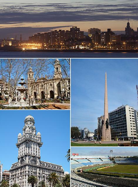 Montage of Montevideo, Uruguay.